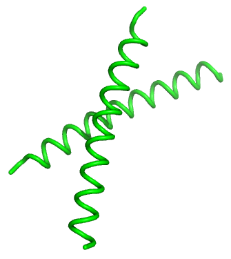 N-terminal fragment 1-34 of parathyroid hormone (PTH)